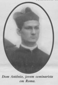 Bishop Antonio de Castro Mayer as a seminarian at the Gregorian University, 1922, Rome.